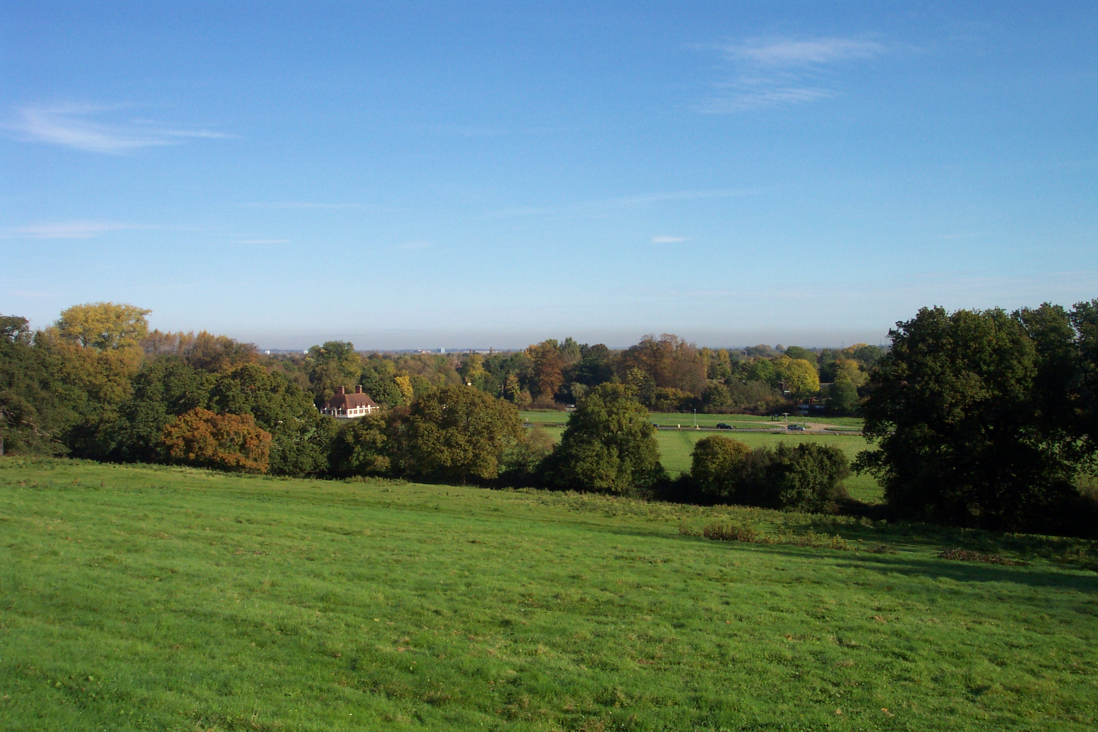 The meadow and riverside at Runnymede, as seen from the Kennedy Memorial. For more information, see Wikipedia article Runnymede.